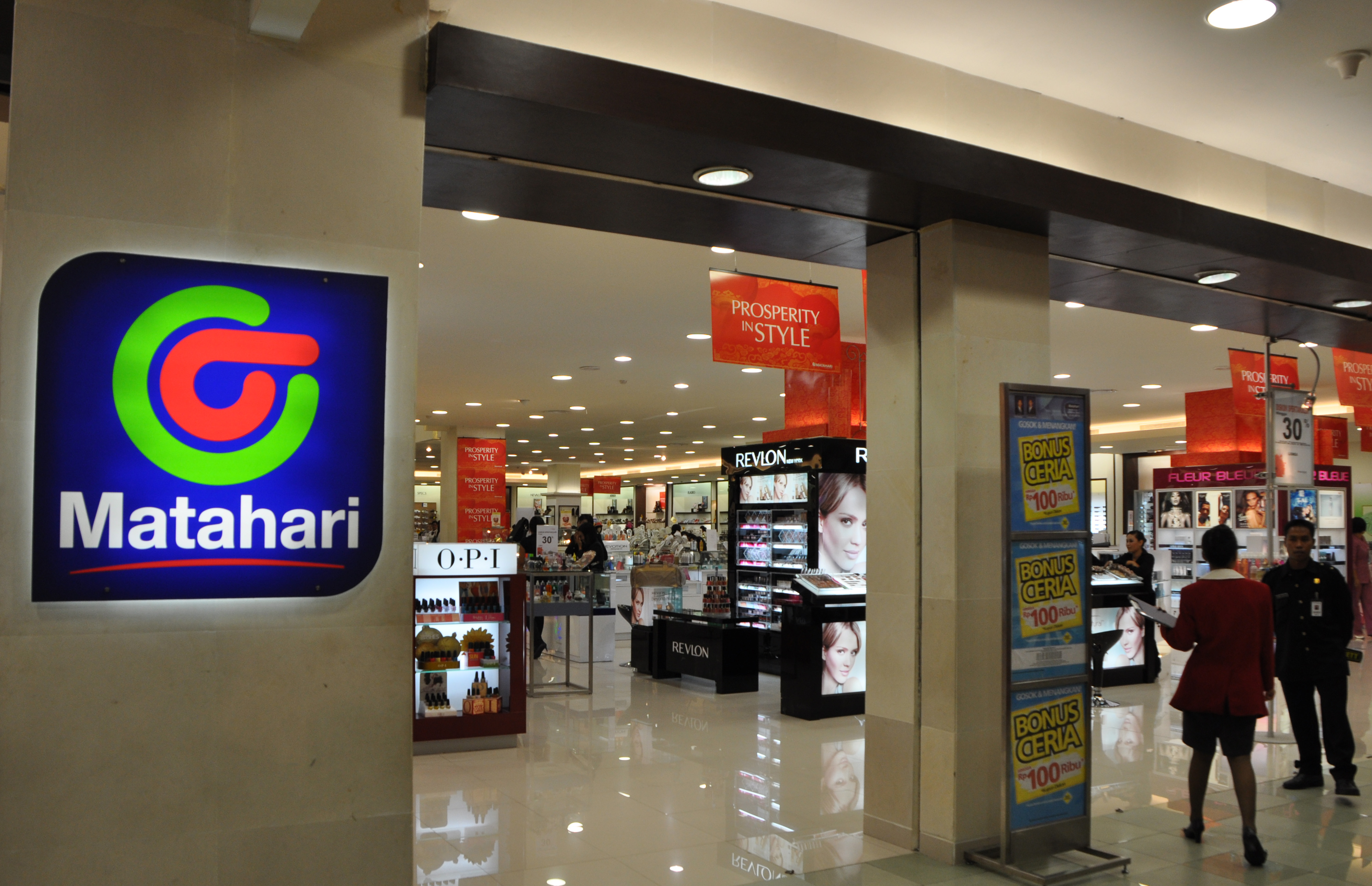 Matahari Department Store, Bali (Mal Bali Galeria), Indonesia